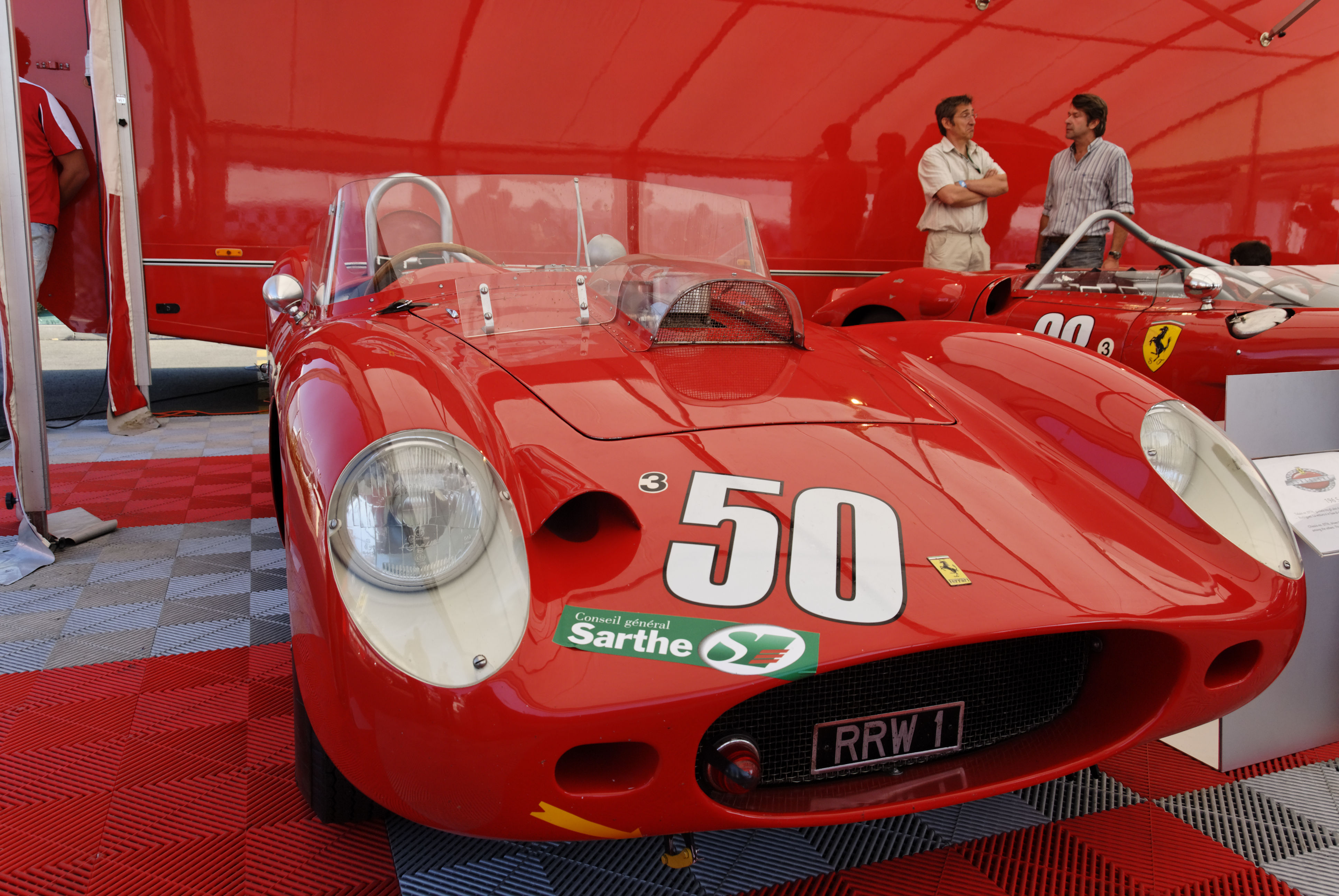 1959 Dino 196 S s/n 0776 at Le Mans Classic 2010